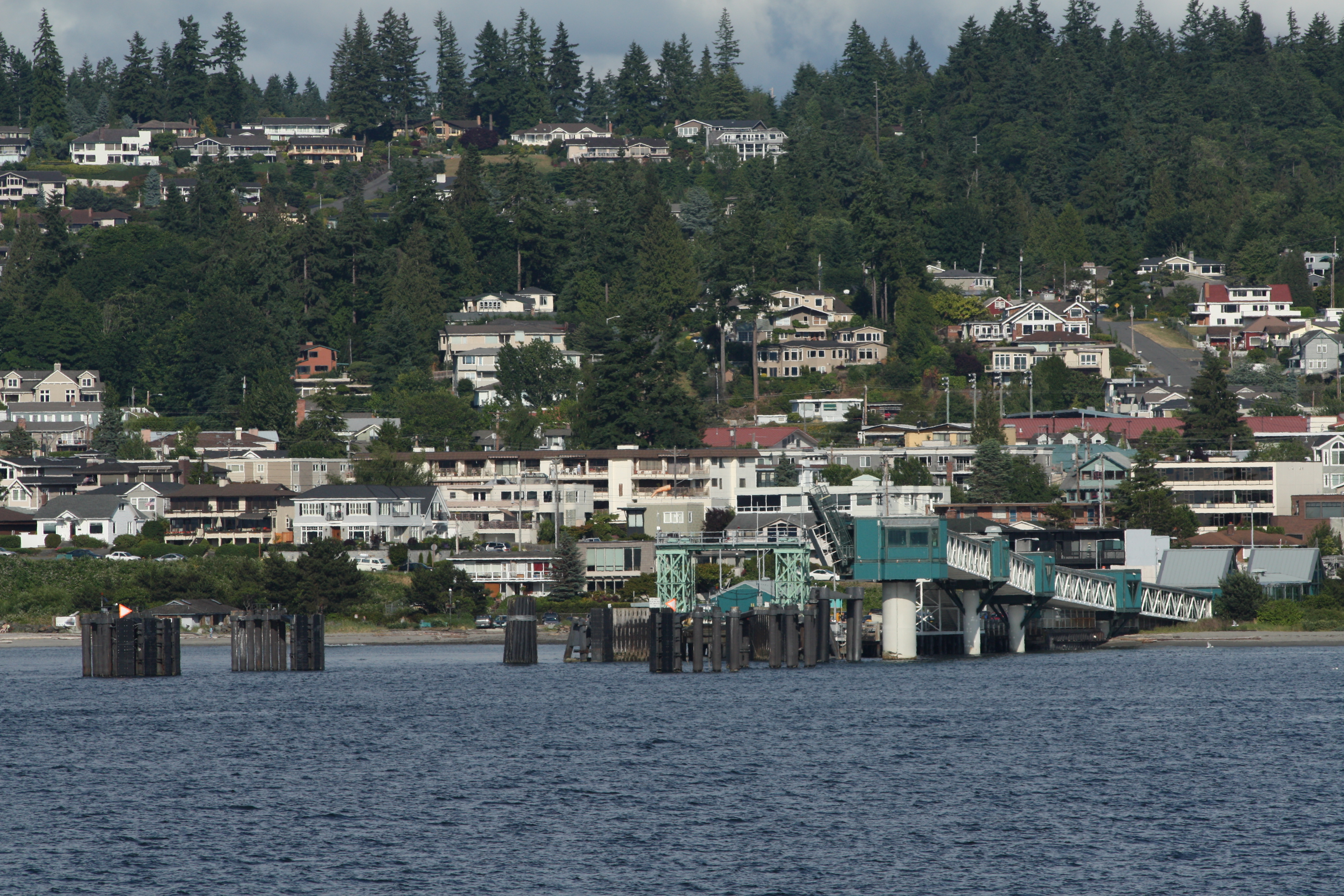 Washington State Ferry Dock